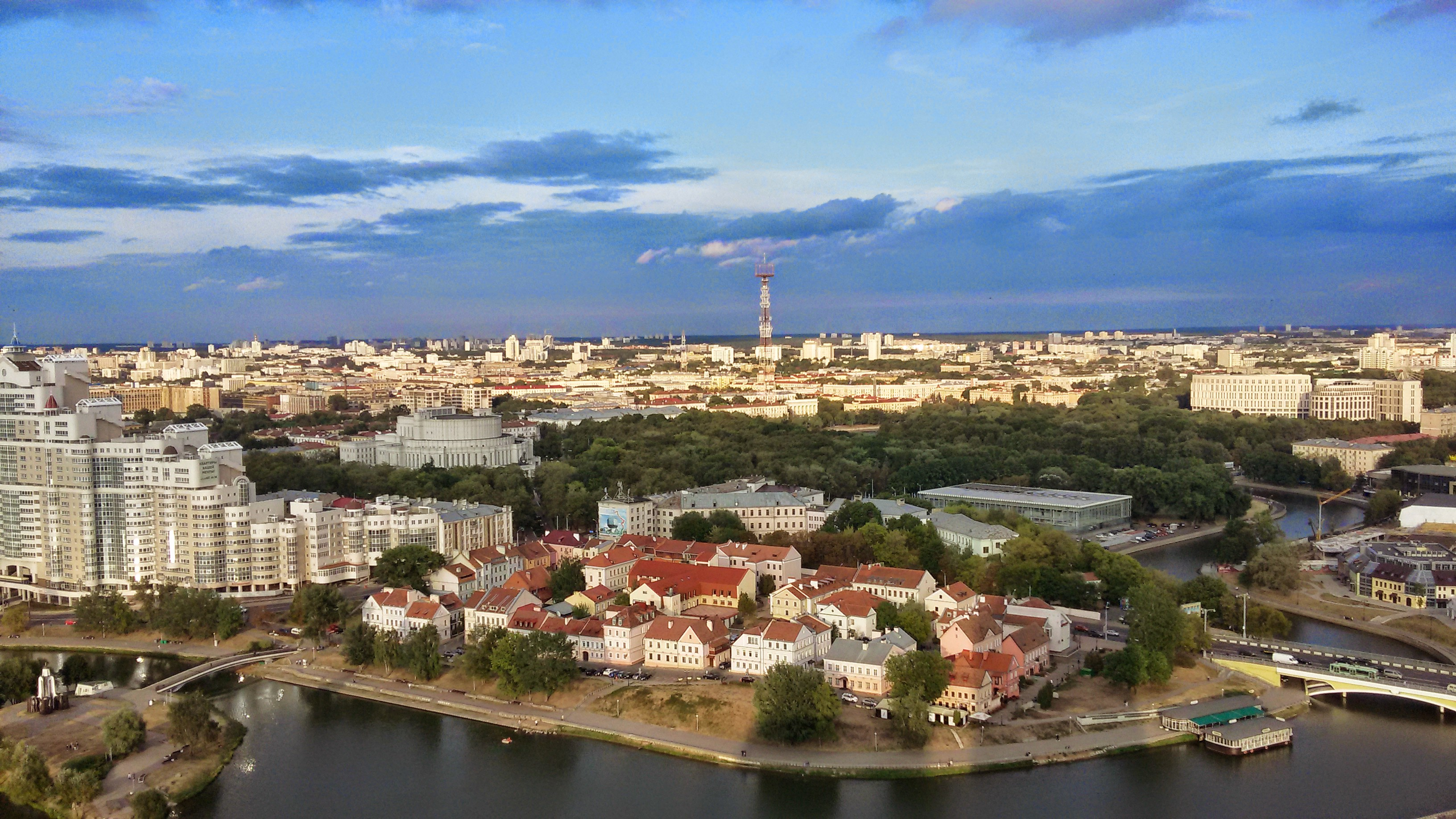 Minsk. A view of the Svisloch river and Troitskoye Predmestye (Trinity Suburb)